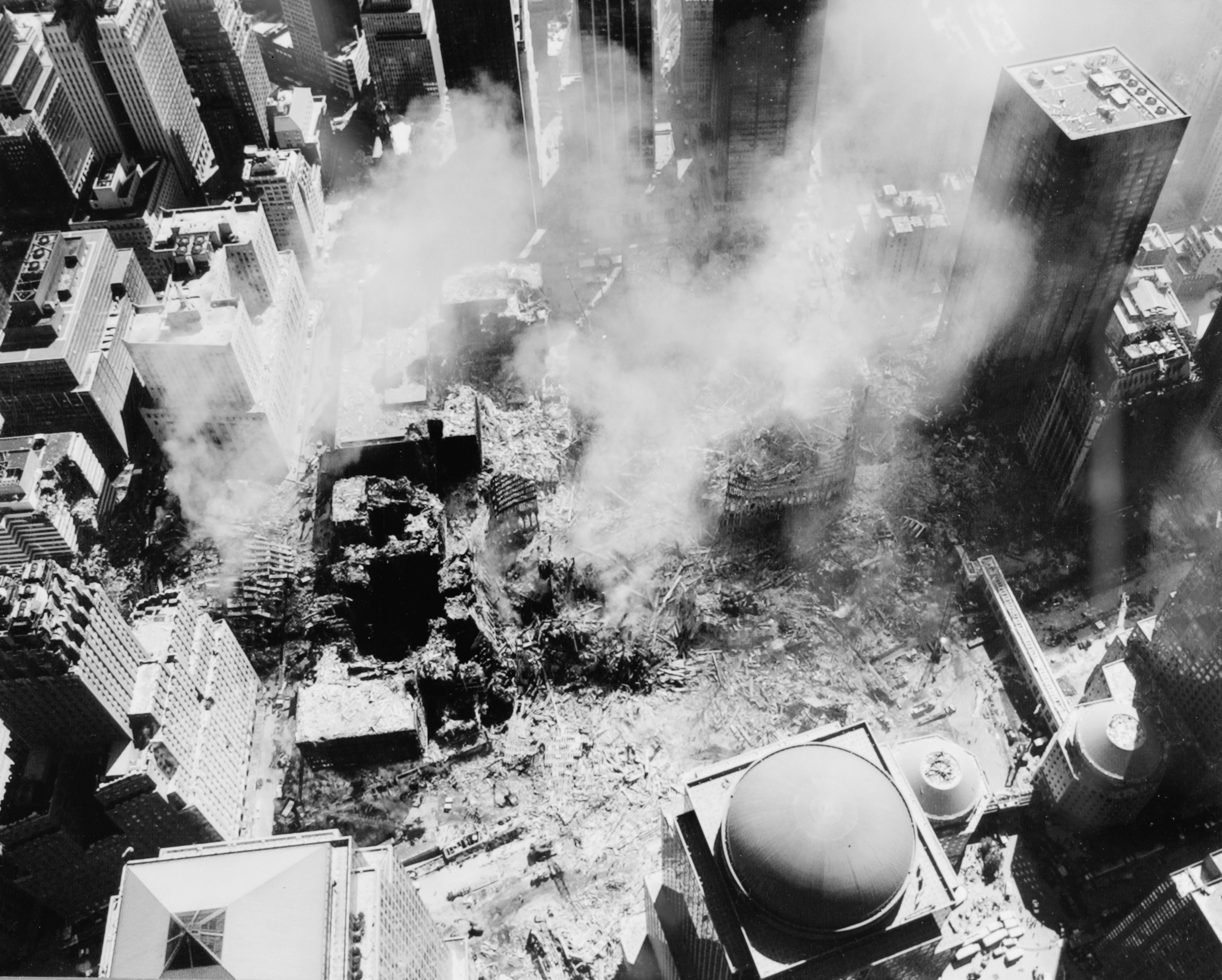 Aerial view of Ground Zero.